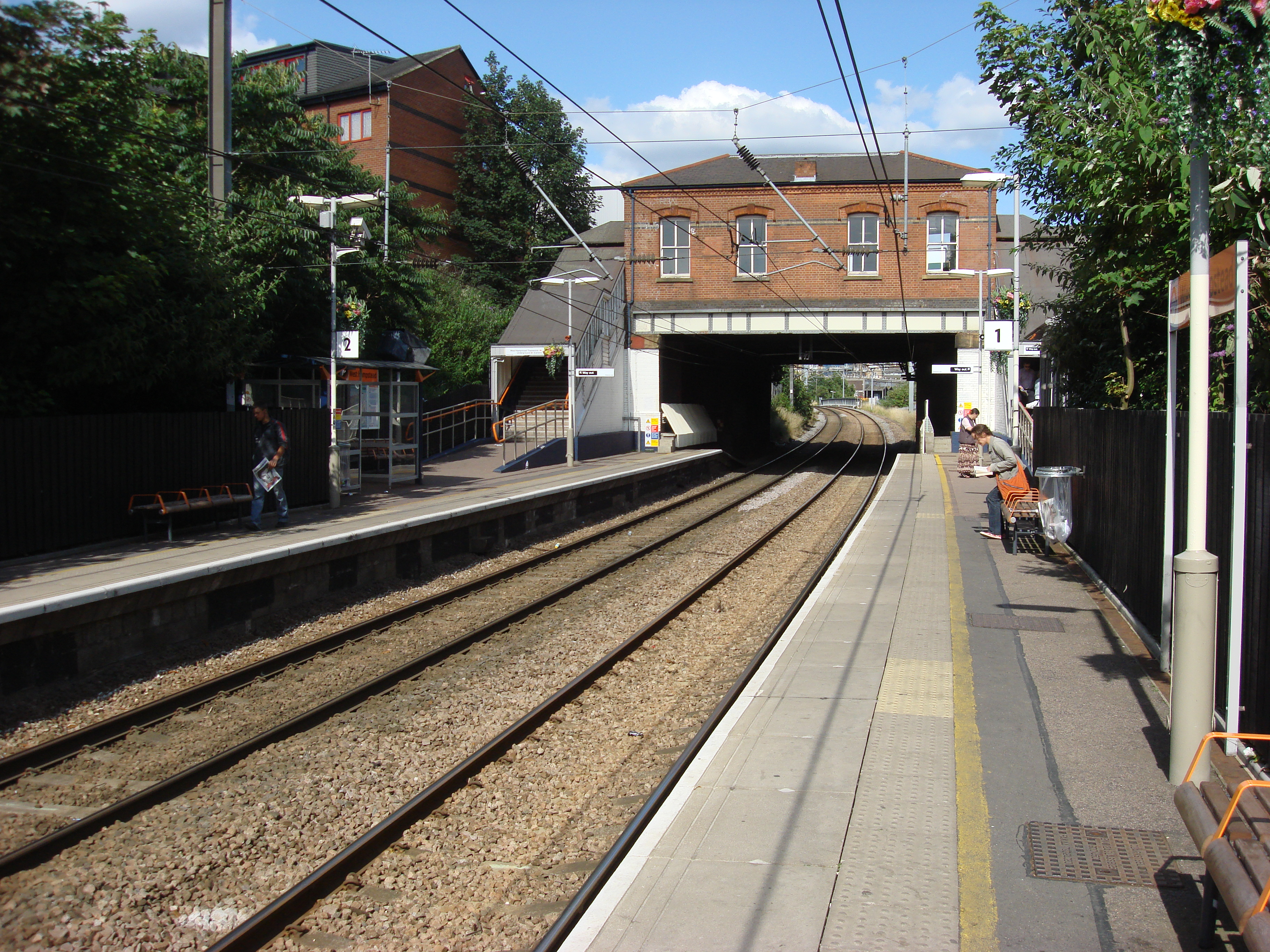 West Hampstead railway station, westbound platform